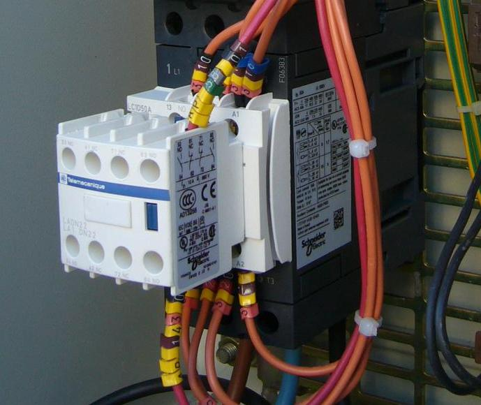 AC contactor for pump application